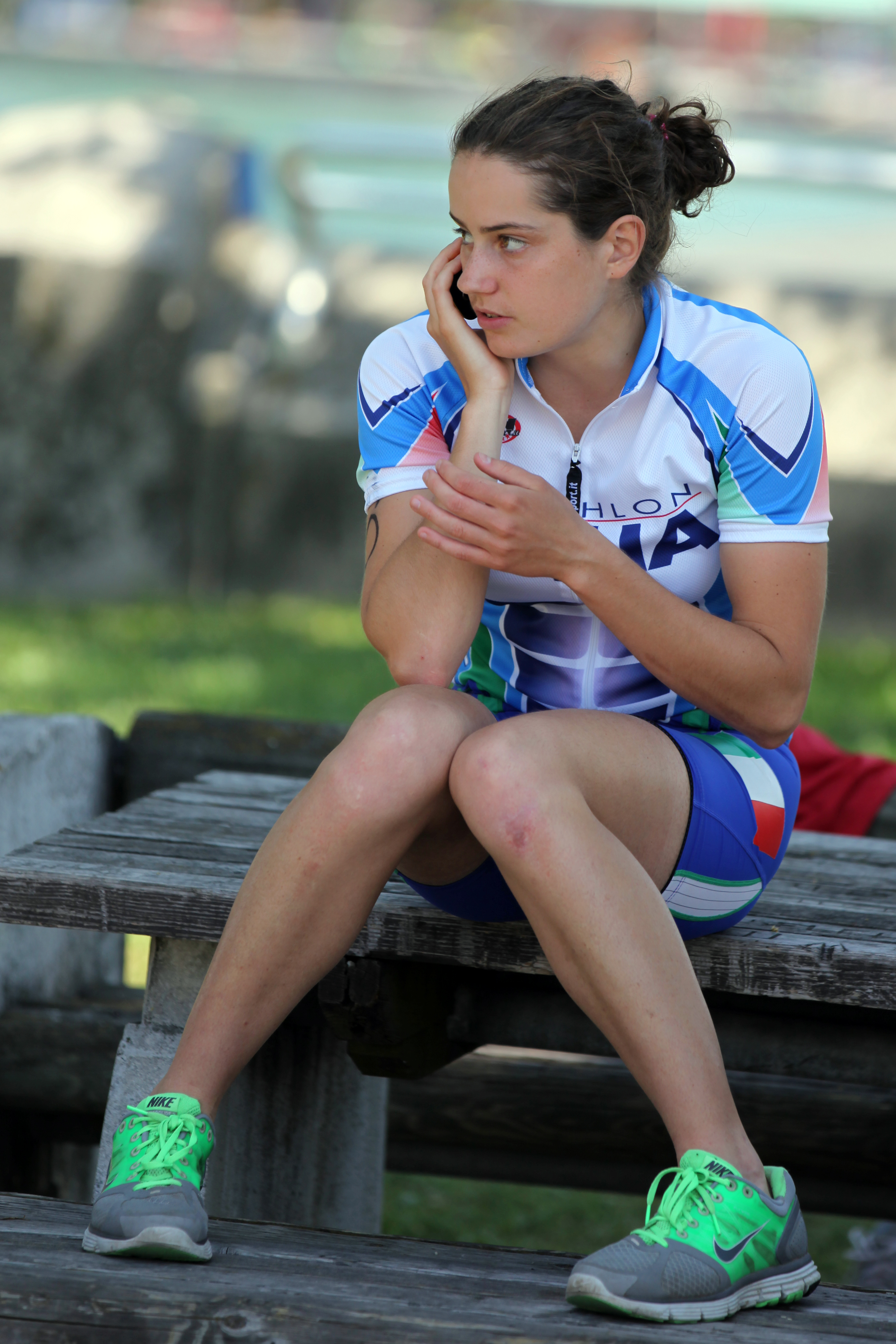 Elena Maria Petrini after the Junior European Cup triathlon in Vienna, 2011.